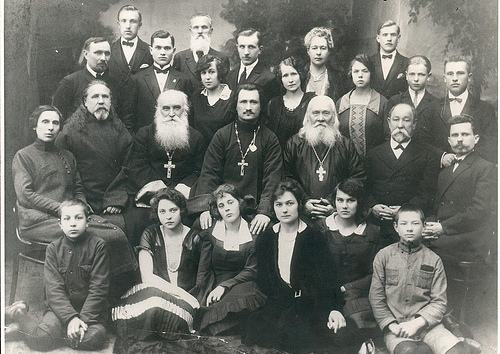 Choir of the Church of the Assumption of the Blessed Virgin Mary in Vilnius. Sitting of the right edge — Ryhor Šyrma.